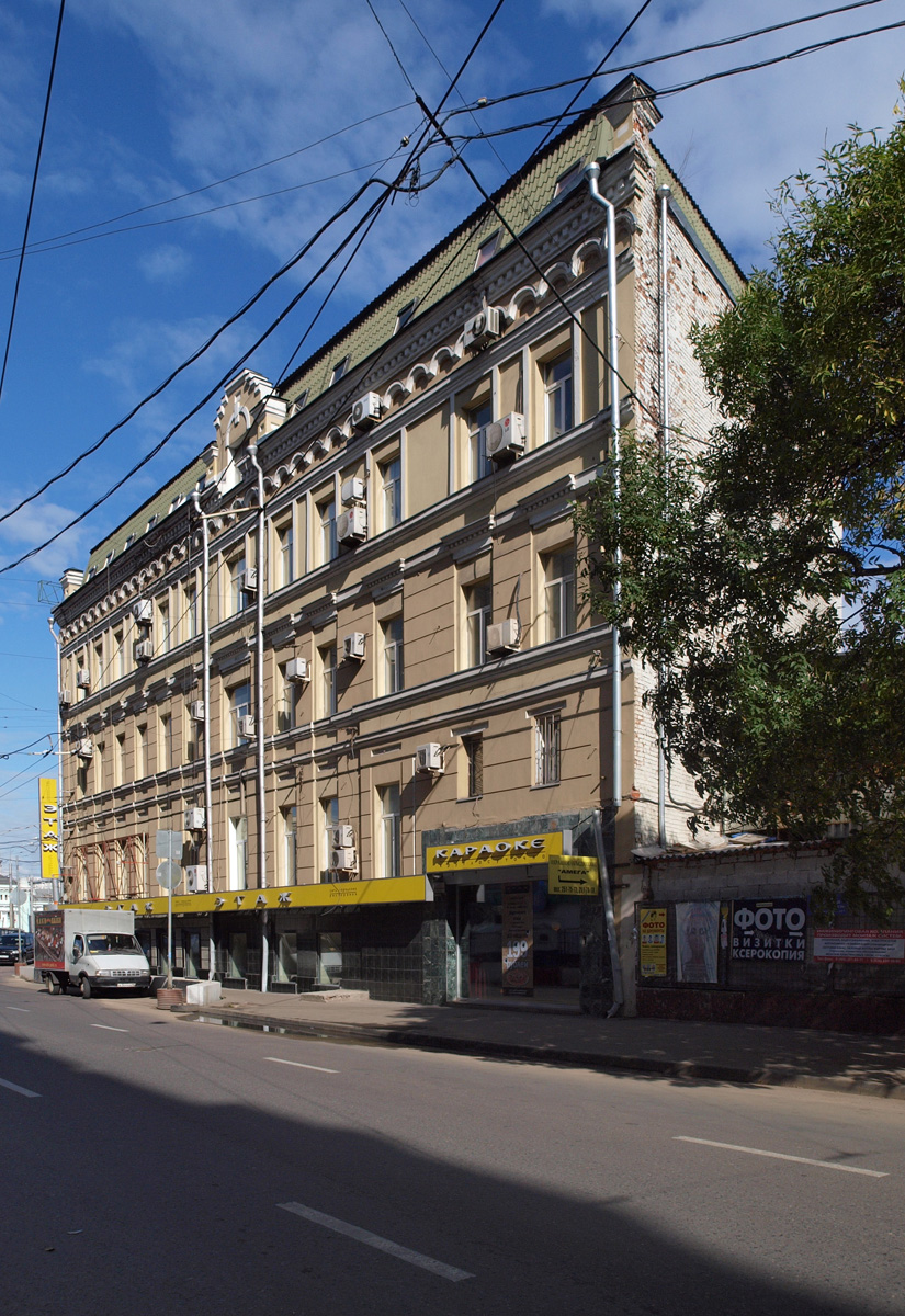 Second Brestskaya Street, Moscow